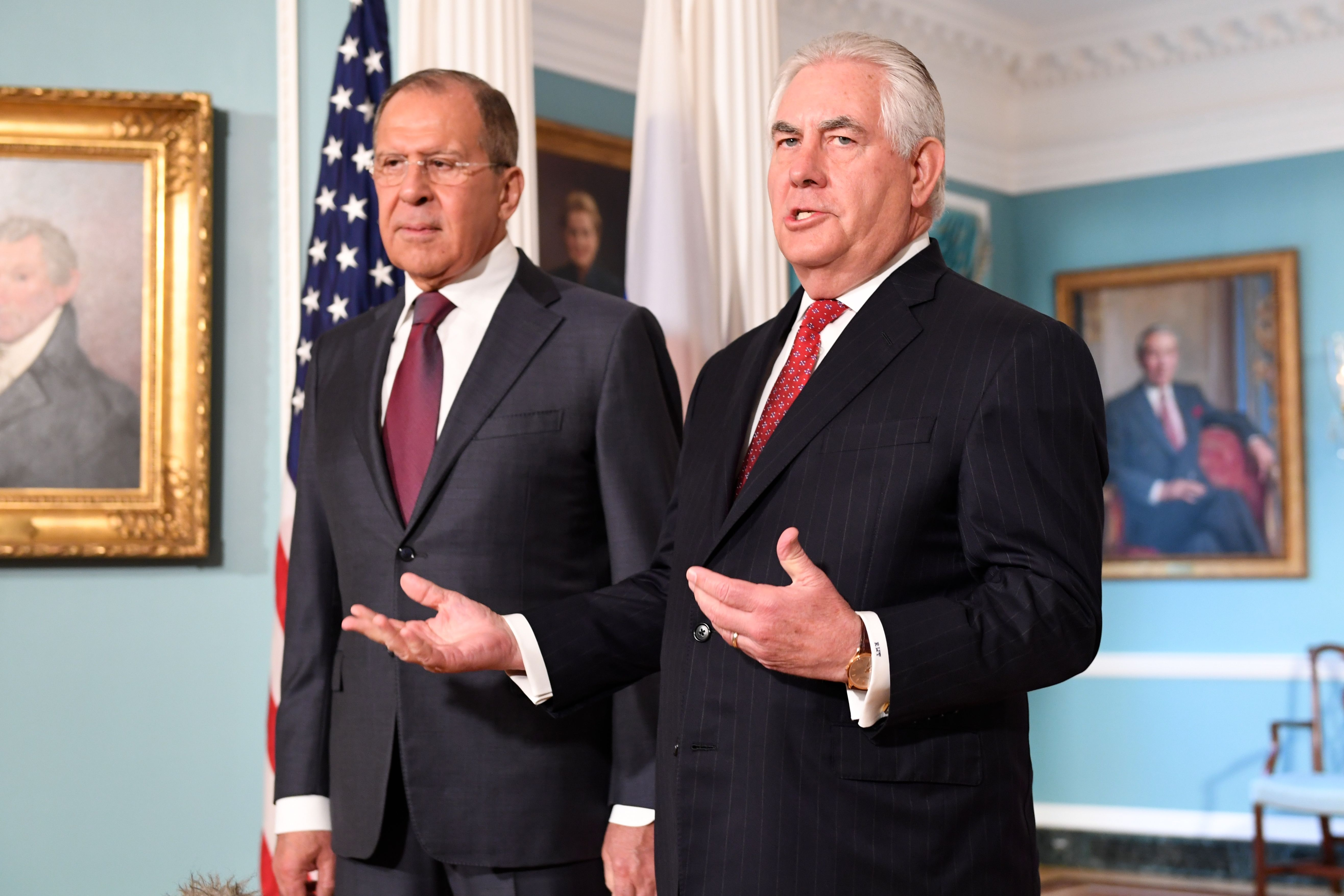 U.S. Secretary of State Rex Tillerson and Russian Foreign Minister Sergey Lavrov address reporters before their bilateral meeting at the U.S. Department of State in Washington, D.C., on May 10, 2017. [State Department photo/ Public Domain]